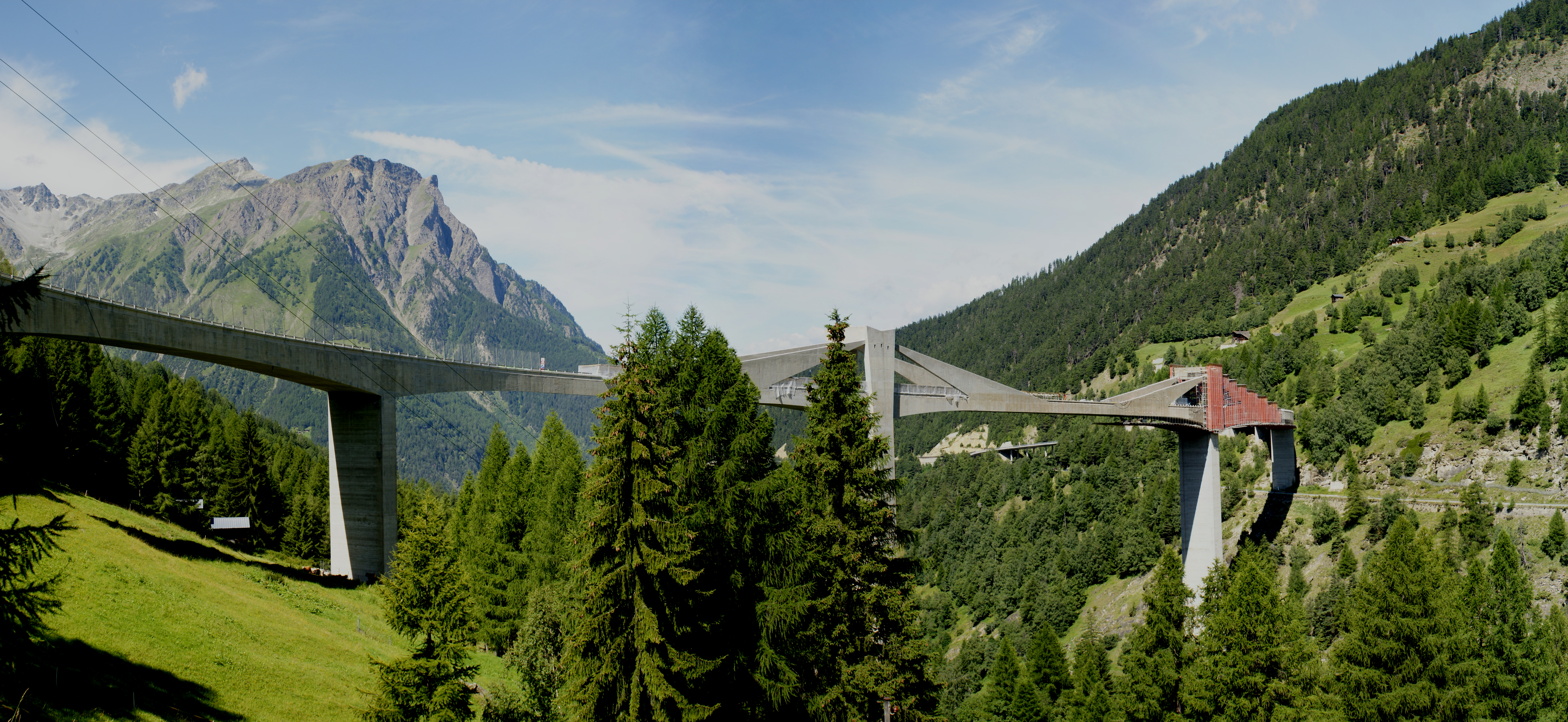 Maintenance on the Gantertal bridge on the Simplonstraße in Wallis, Switzerland.